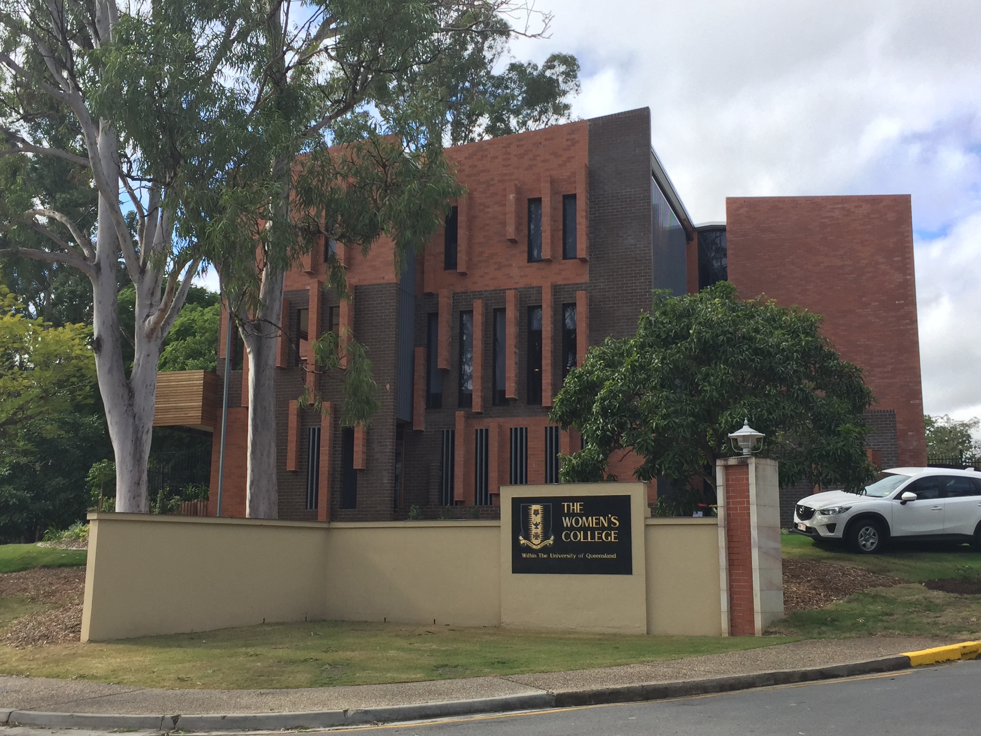 The Women's College within the University of Queensland, St Lucia Campus, Brisbane